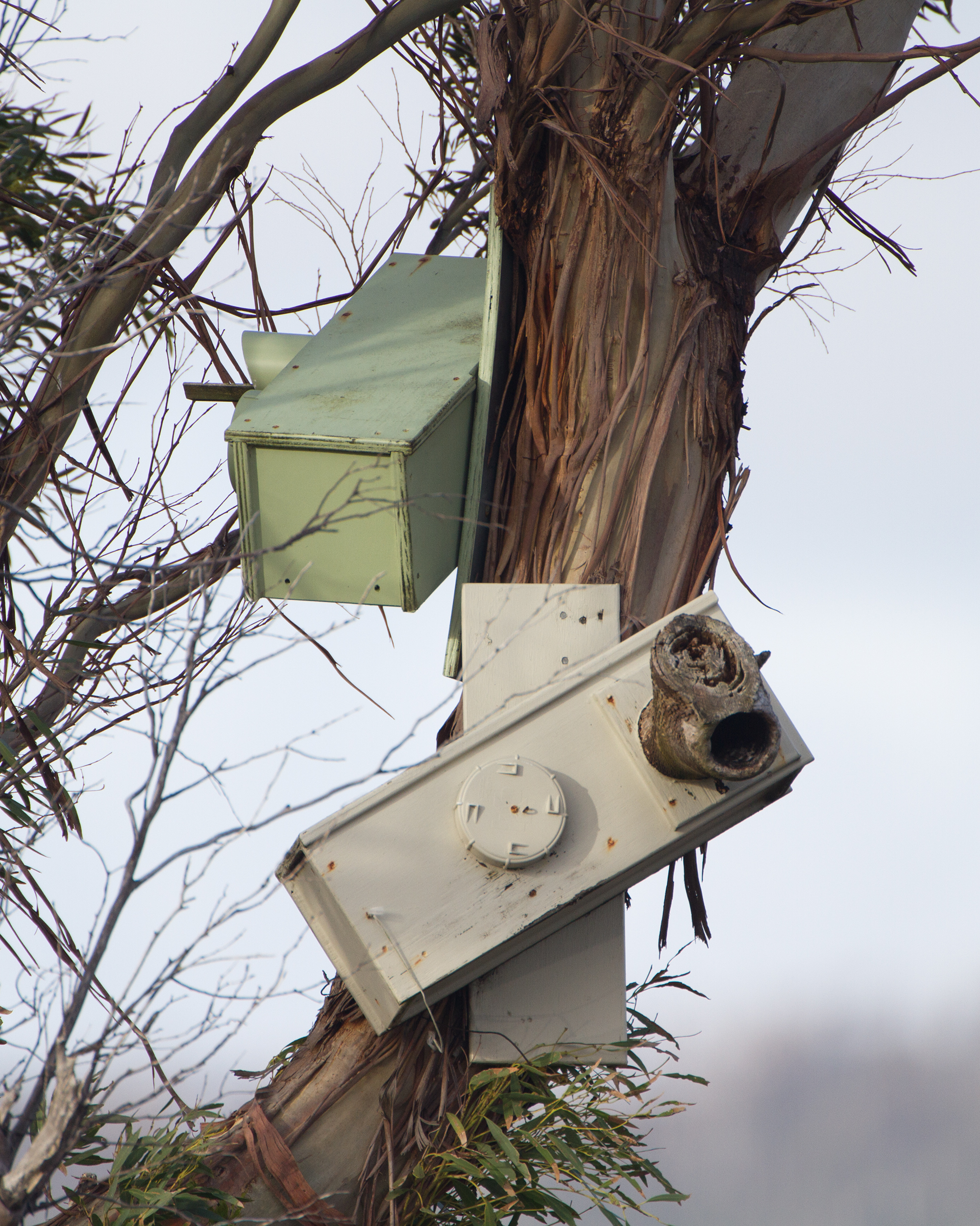 Nesting boxes intended for use by the Orange-bellied Parrot (Neophema chrysogaster), Melaleuca, Southwest Conservation Area, Tasmania, Australia